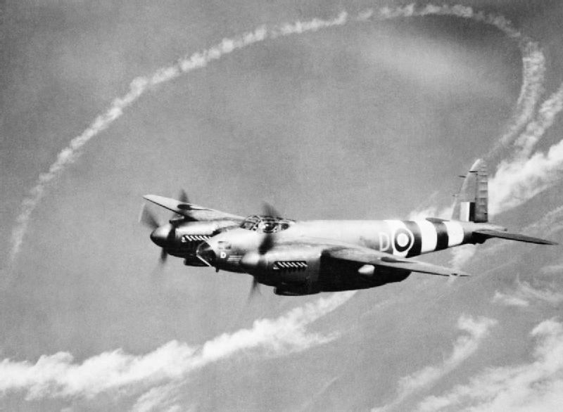 de Havilland Mosquito PR Mark IX (serial number ML897) of 1409 (Meteorological) Flight RAF photographed in November 1944. Part of the Air Ministry Second World War official collection.